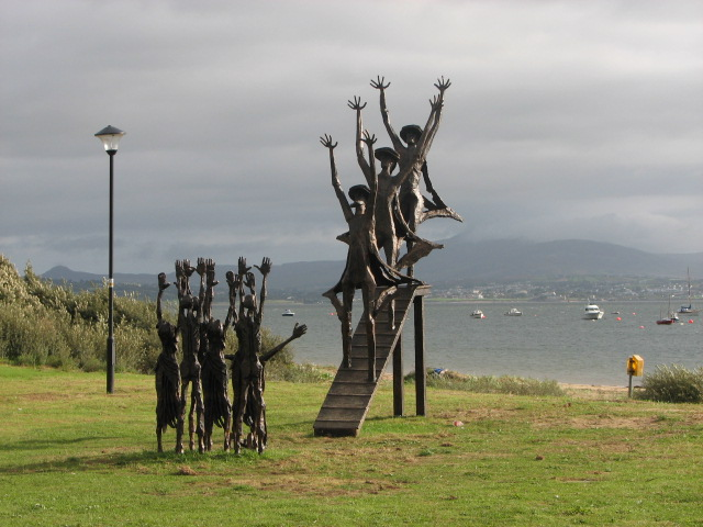 Flight of the Earls Another view of the bronze sculpture on the edge of the beach at Rathmullan harbour.The Earls,O'Neill,O'Donnell and Maguire were never to return and lived for the rest of their lives in exile.